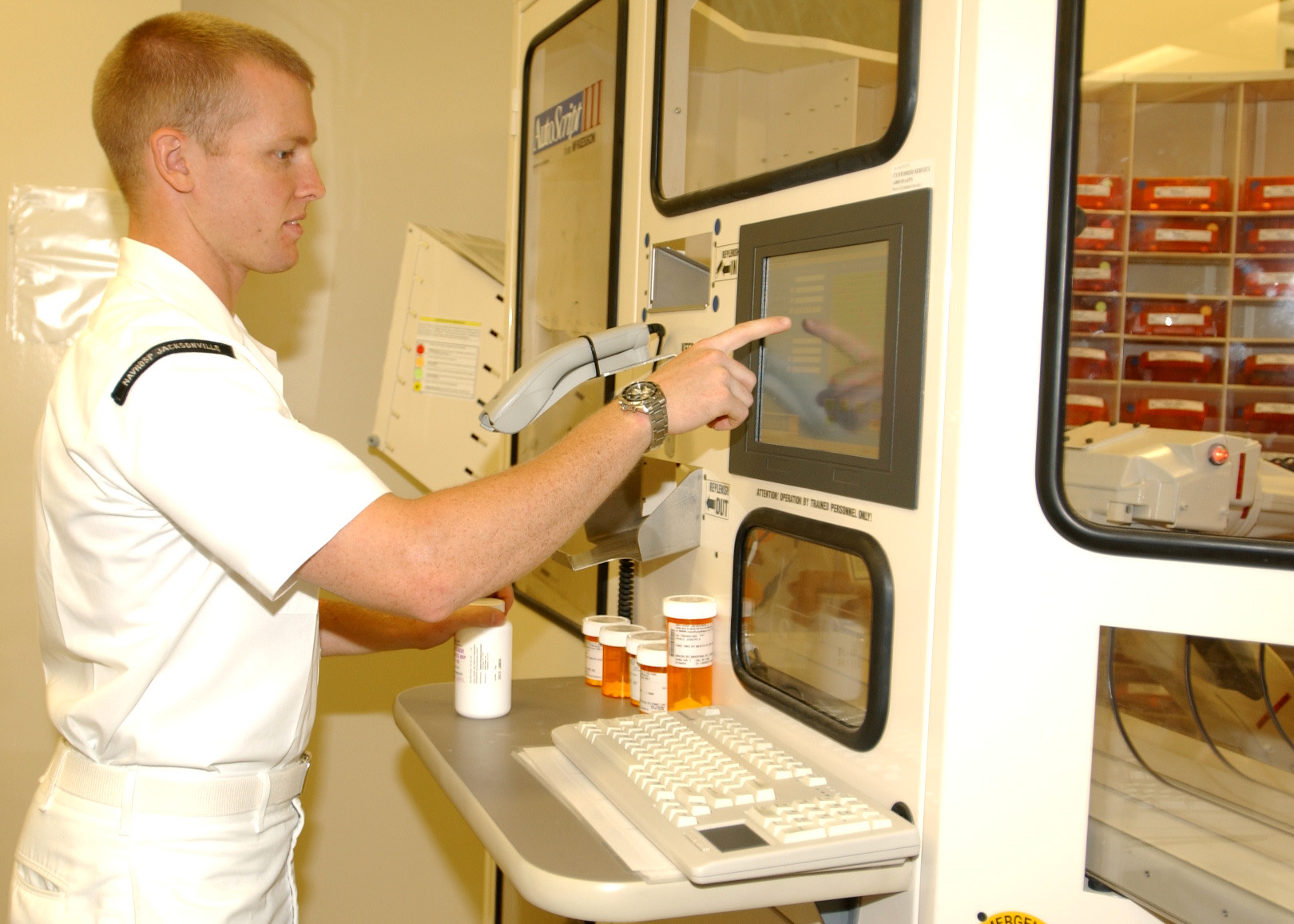 Naval Hospital Jacksonville, Fla. (Jul. 10, 2003) -- Hospital Corpsman 3rd Class Kenneth Hughes from Merrit Island, Fla., activates the pharmacy's new Autoscript III tablet and capsule dispenser. The Autoscript III provides a safer and more accurate accountability with the help of the automated robot. U.S. Navy photo by Photographer's Mate 2nd Class Toiete Jackson. (RELEASED)